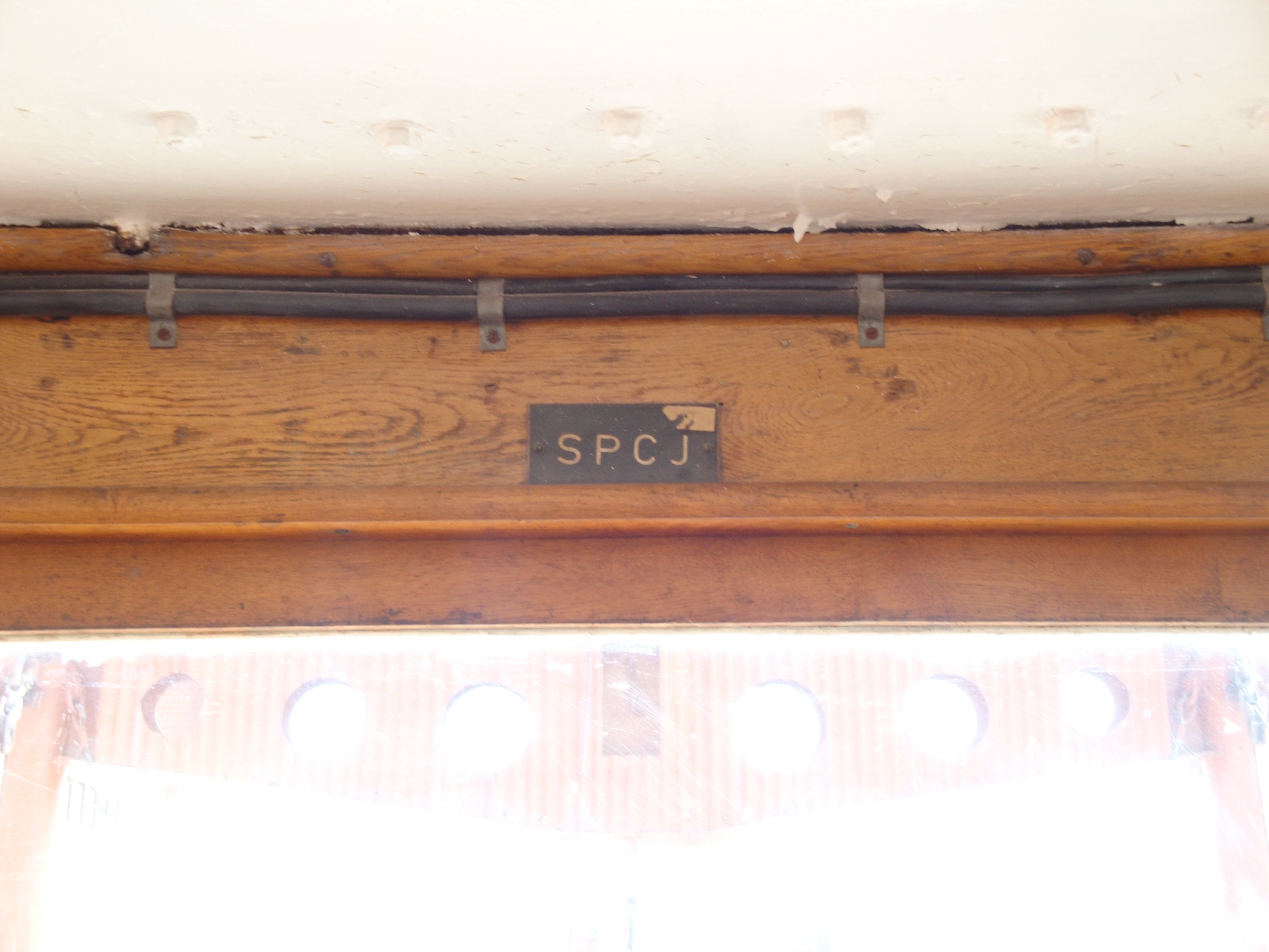 Museal ship S/S Sołdek in Gdańsk, Poland